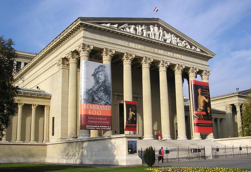 The Museum of Fine Arts, Budapest